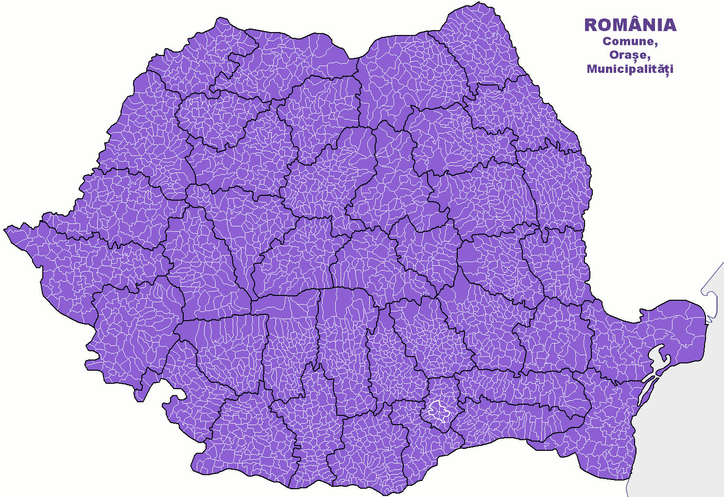 Romania's 3137 Towns & Boroughs